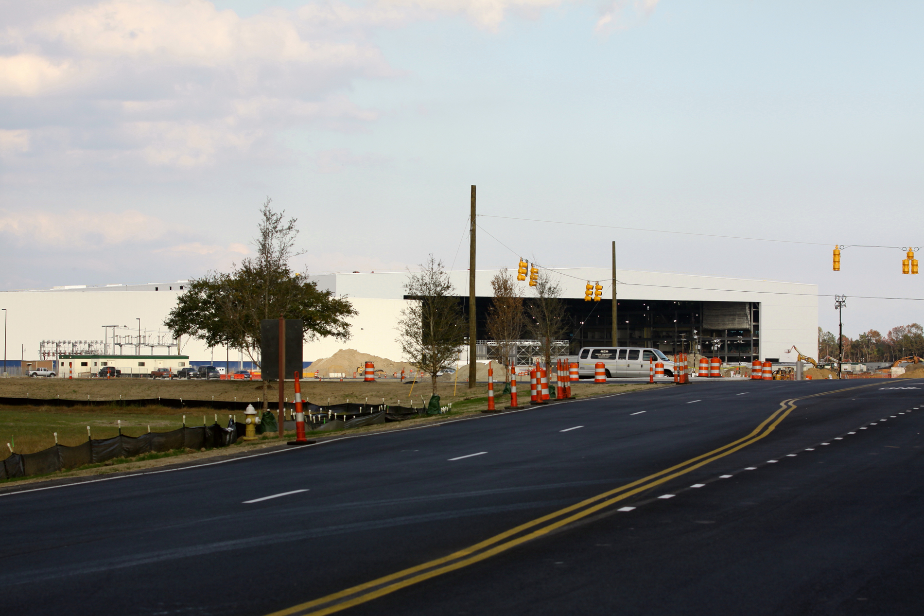 New plant under construction